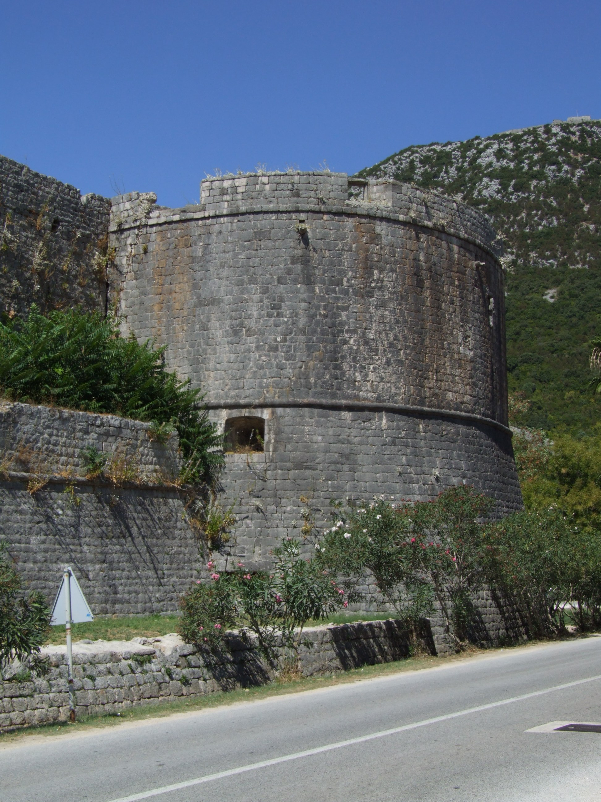 Ston, Croatia - Fortress Kaštio